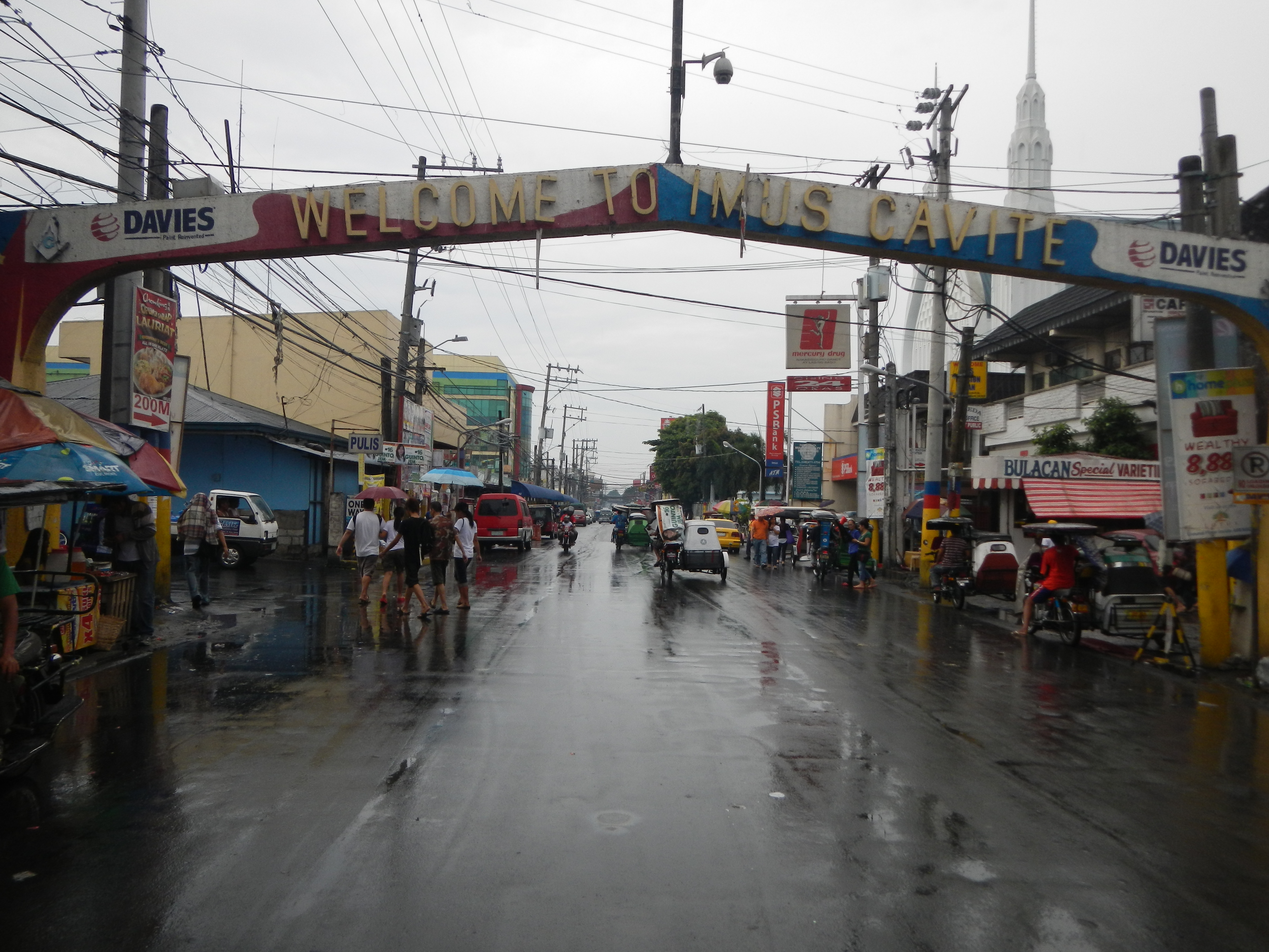 Treelane 2 Subdivision[1] Coordinates: 14°25'3"N 120°55'55"E Our Lady of the Pillar Medical Center[2] Coordinates: 14°25'8"N 120°56'21"E -- Imus[3] The City of Imus (Filipino: Lungsod ng Imus) is the officially designated capital city of the province of Cavite in the Philippines. The former municipality was officially converted into a city following a referendum on June 30, 2012. Based on the 2010 local government unit (LGU) income of Imus, the former town is classified as a first-class component city of Cavite with a population of 301,624 people according to the 2010 census.[4] This place is situated in Cavite, Region 4, Philippines, its geographical coordinates are 14° 25' 47" North, 120° 56' 12" East and its original name (with diacritics) is Imus. [5] Coordinates: 14°24'3"N 120°55'57"E ---[N.B. Very unfortunate and fortunate photography of Imus, Cavite: cloudy and 80% rain upon my Nikon AW100 waterproof shockproof camera. From Bulacan I took photo of Imus Cathedral and Imus Cavite starting 1:39 p.m. Caught in the rain, I did beg the Imus Cathedral in-charge to open all the Lights and he did upon Order from the Parish Office. I am so fortunate that only 2 or 3 people were inside, and nothing to block my photos; unfortunate, however, is the rain that tormented my photos but my Nikon sensor fought and I am sharing Wikimedia Commons and Wikipedia these rare, original and sole photos of Imus, Cavite, 98% never photographed since the Battle of Imus. I finished photography at 4:18 p.m. and started uploading via slow internet at 7:54 pm - I hereby certify that these photos are exclusive for Commons and Wikipedia never uploaded in any Internet or any site, and for the public domain without any condition.]